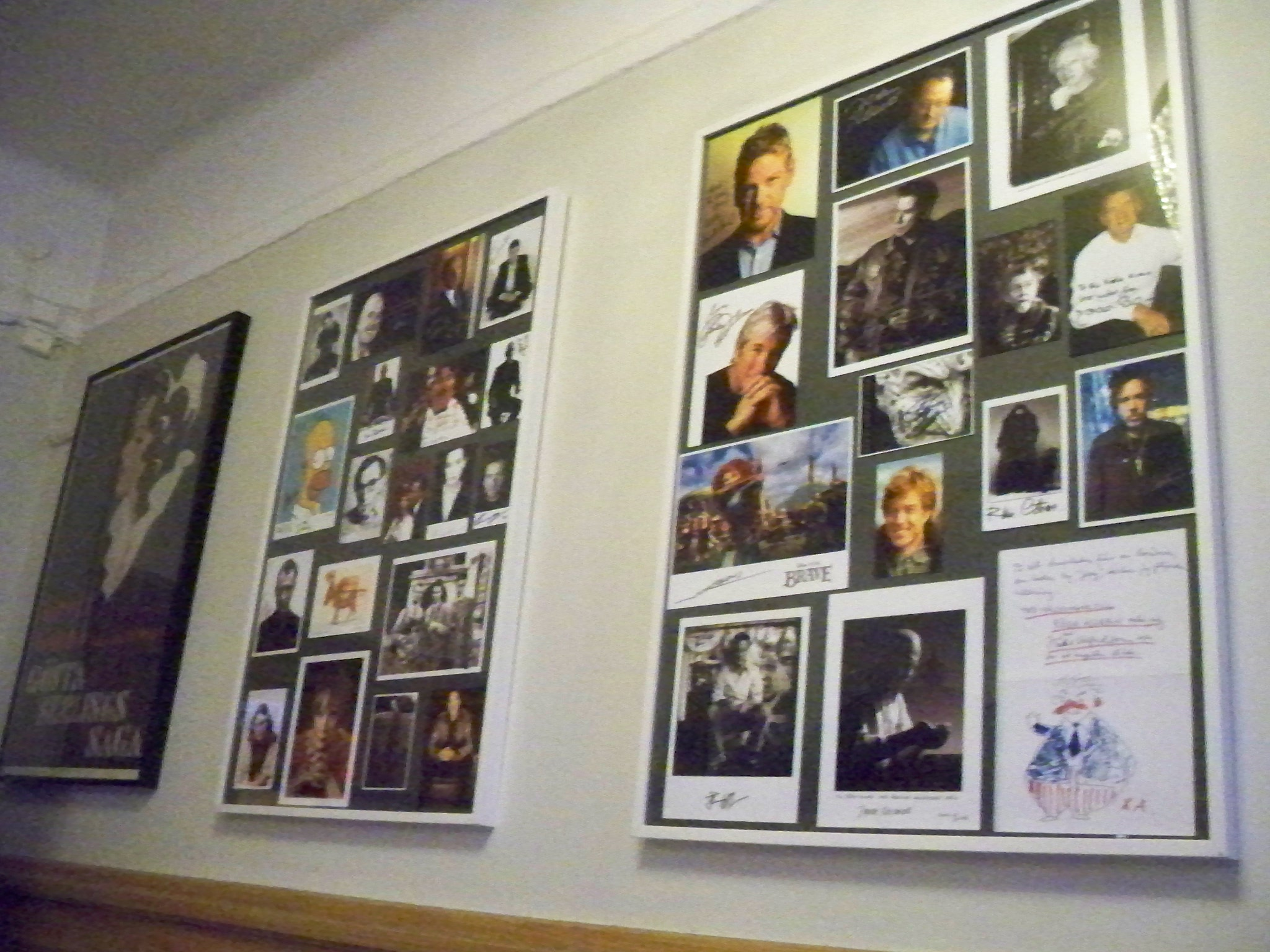 On a wall in the entrance hall of the 1914 picture palace Röda Kvarn (Red Mill) in the city of Borås, Sweden, film celebrity greetings are publicly displayed. Among others, from Richard Gere, Woody Allen, John Cleese, Robert Redford, and Kenneth Branagh.